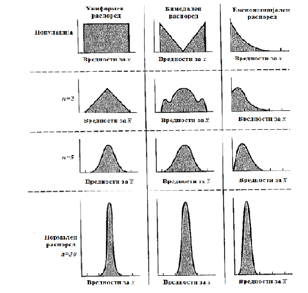 Central Limit Theorem shown by different distributions and different population values.